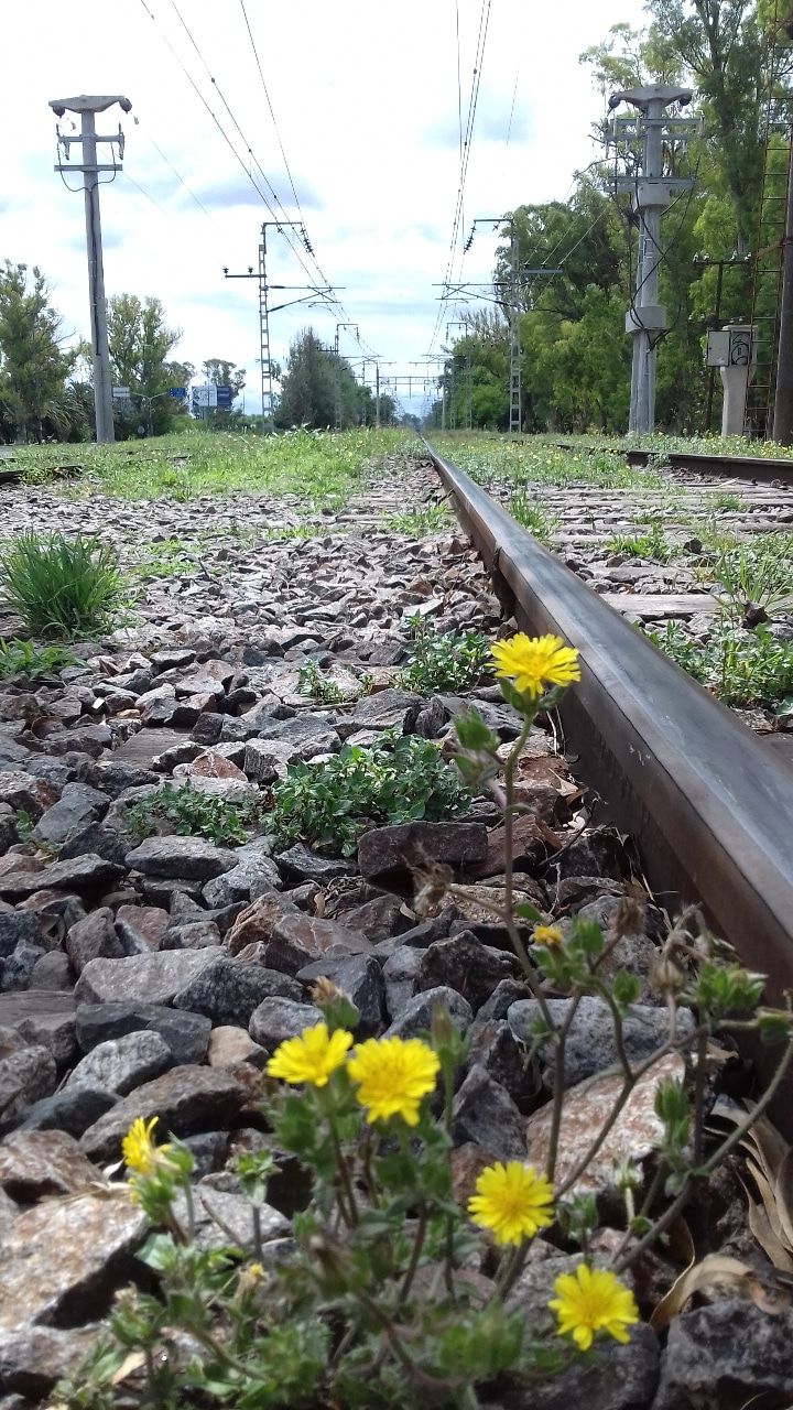 Imagen de rieles en la estación de M. B. Gonnet, Buenos Aires, 2020.